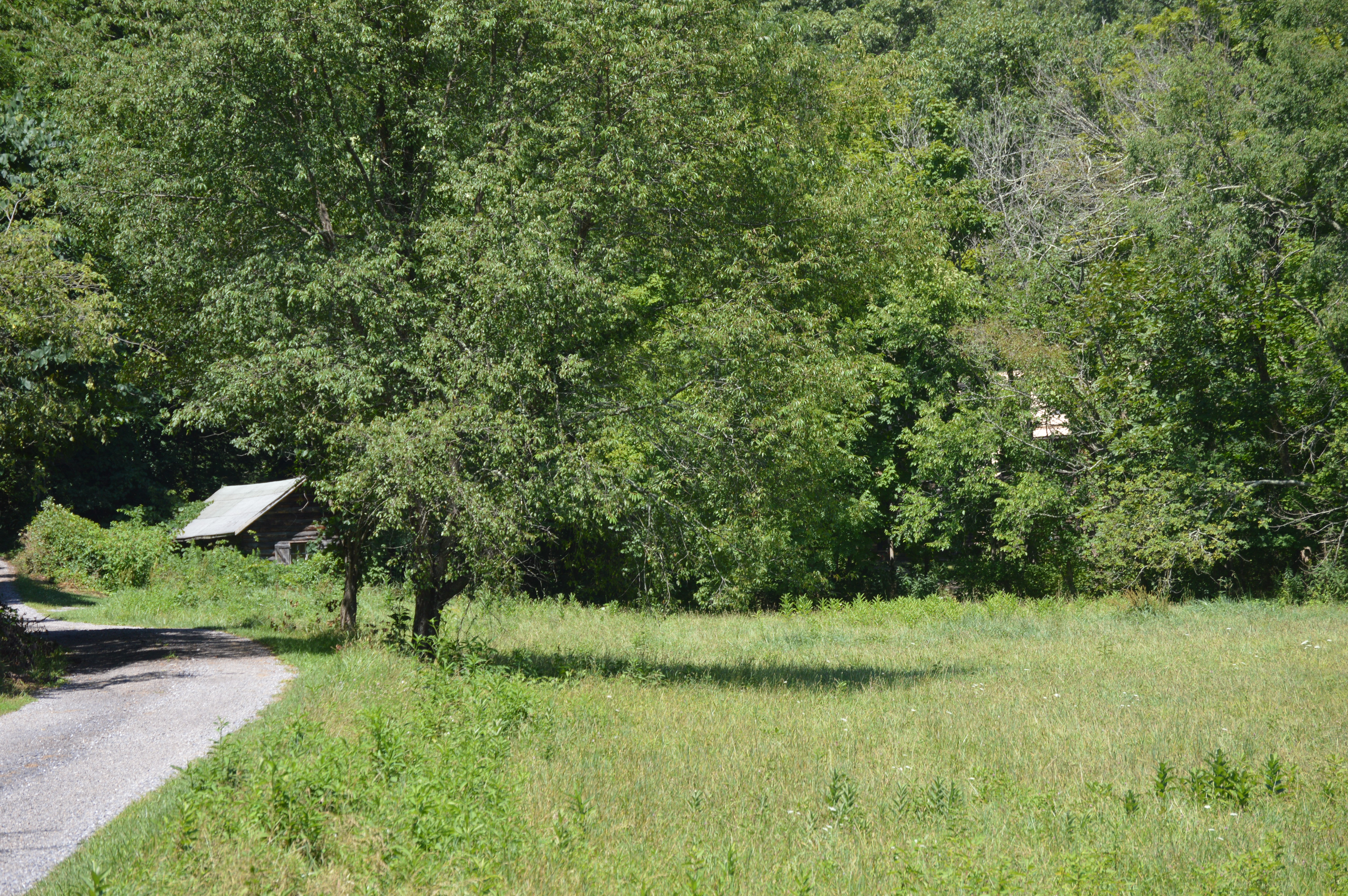 The driveway, woodland, and a caretaker's cottage at the Wood Hall property, located off Indian Draft Road at Callaghan in Alleghany County, Virginia, United States. The property is listed on the National Register of Historic Places.